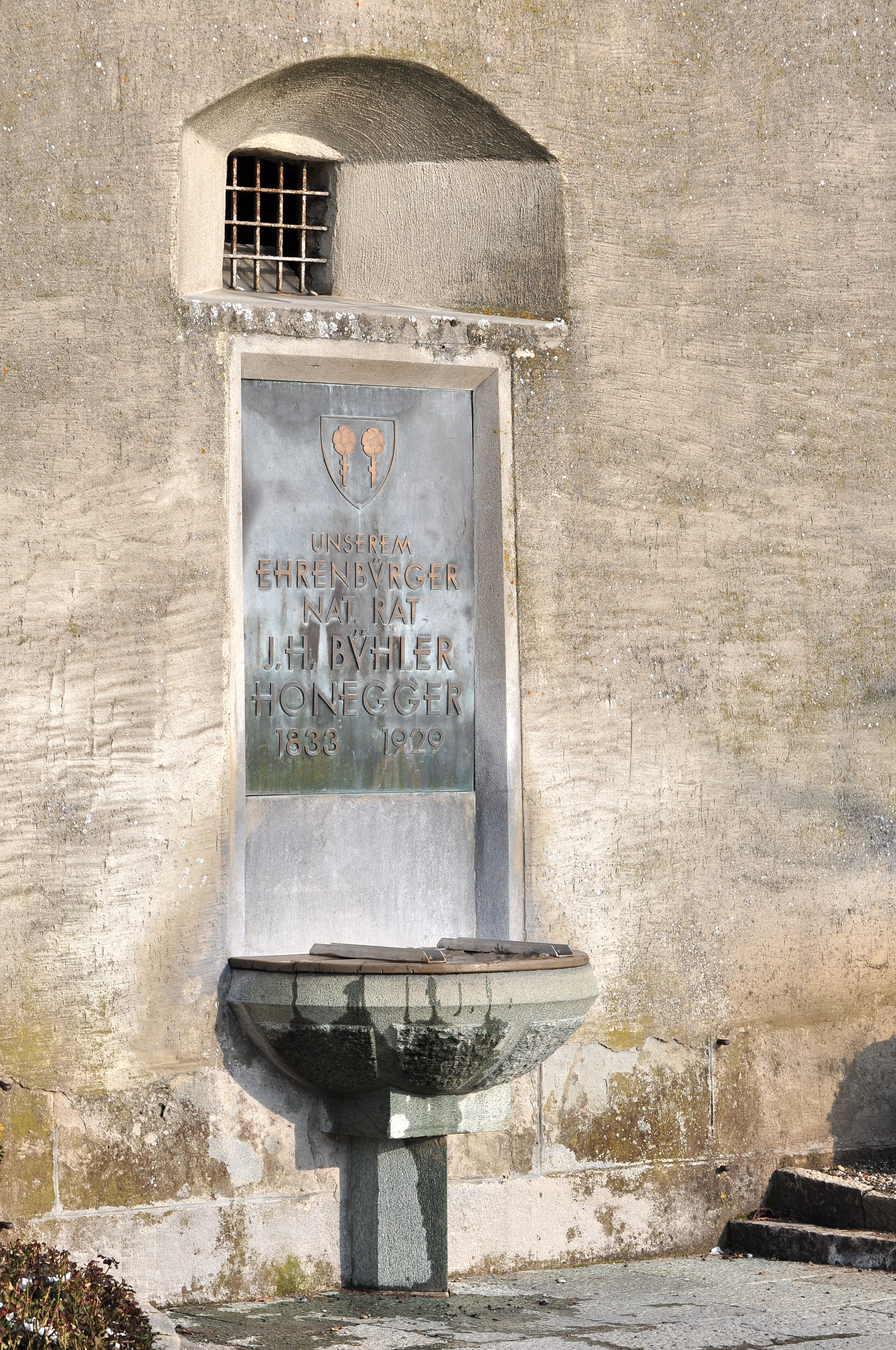 Memorial fountain at the fortifications at Endingerhorn in Rapperswil (Switzerland)